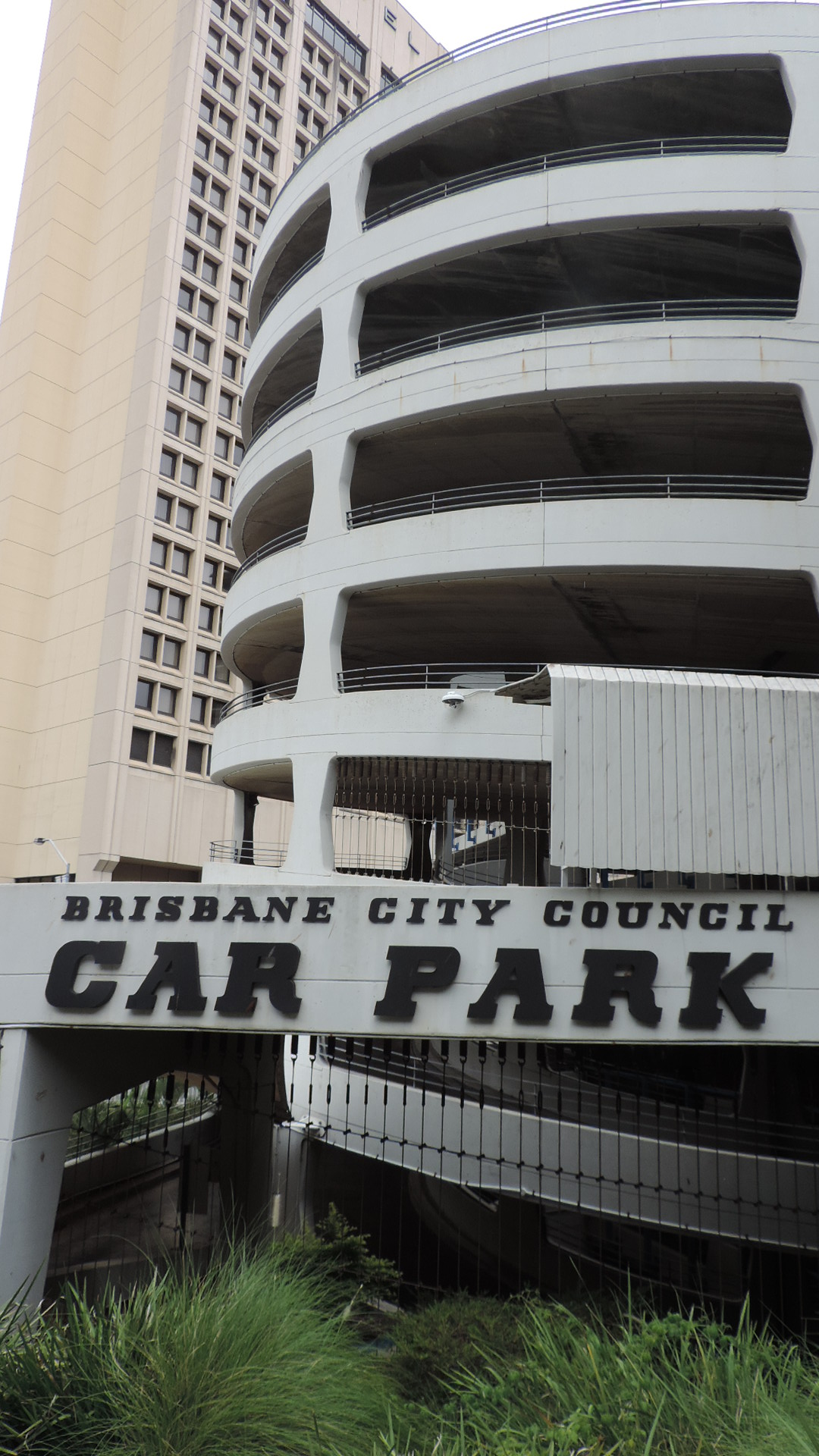 Wickham Terrace Carpark (as seen from intersection of Wickham Terrace and Creek Street), 2015